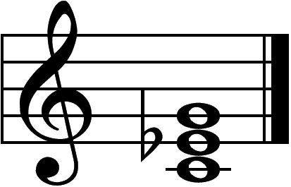 Major minor